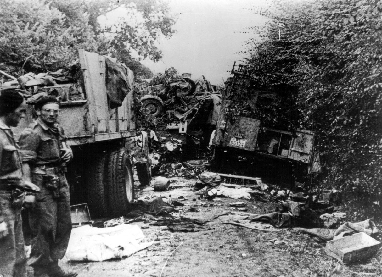 German column destroyed by 1st Polish Armoured Division in Normandy 1944.